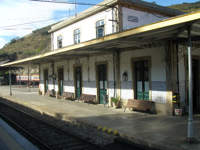 train station of Tua